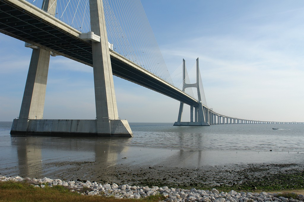 Vasco da Gama Bridge in Portugal.